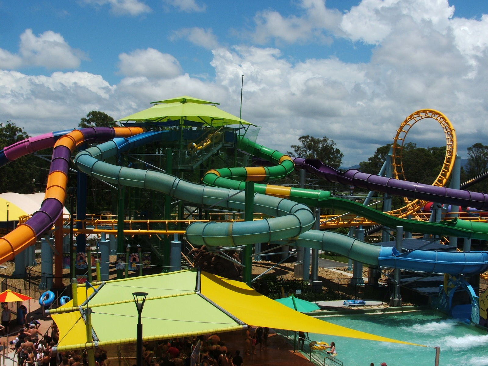 The track of the Cyclone roller coaster at the Dreamworld theme park, interacting with the Temple of Huey and Little Ripper slides at the adjacent White Water World water park. Photo taken from the Cyclone queue.